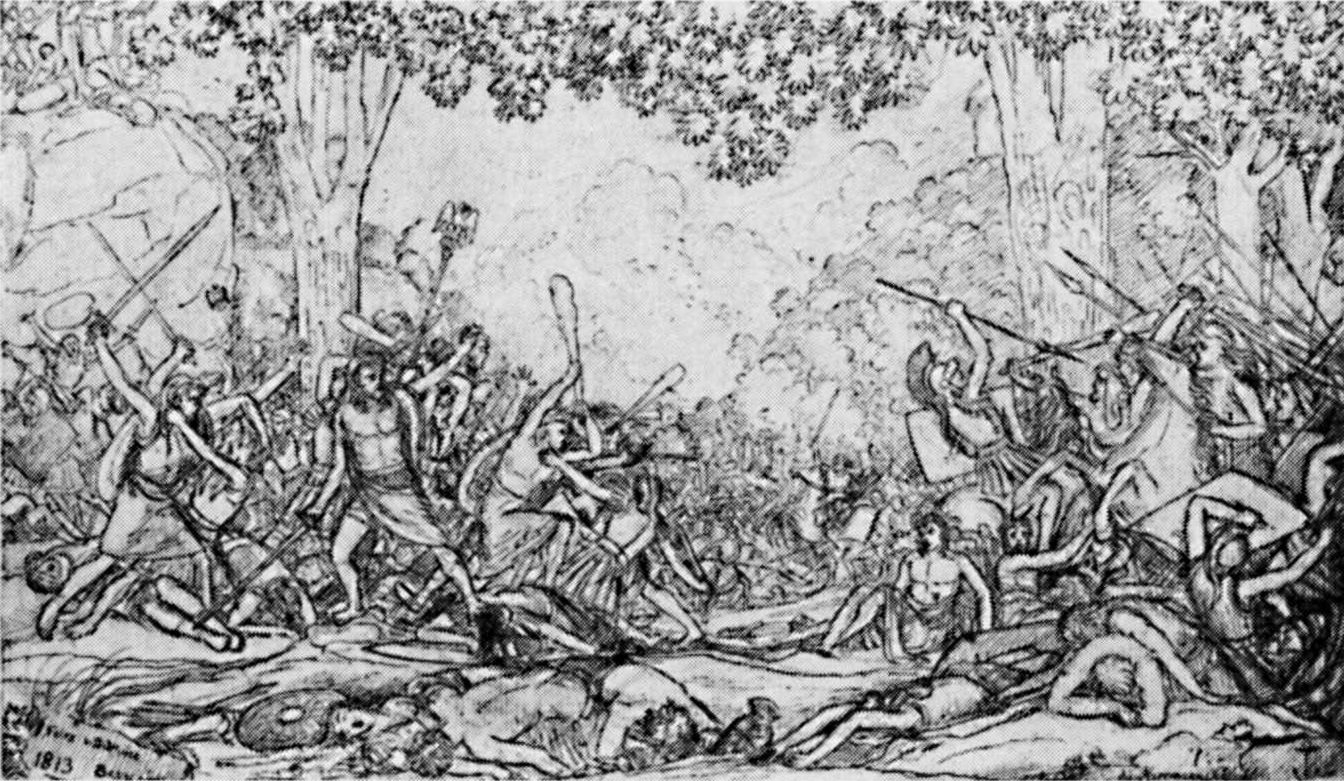 "The Battle in the Teutoburg Forest", signed: Fritz, March 20, 1813, Breslau. Drawing by Crown Prince Friedrich Wilhelm. Print in Die historische Ausstellung zur Jahrhundertfeier der Freiheitskriege Breslau 1813, ed. by Karl Masner and Erwin Hintze (Breslau, 1916), p. 5.